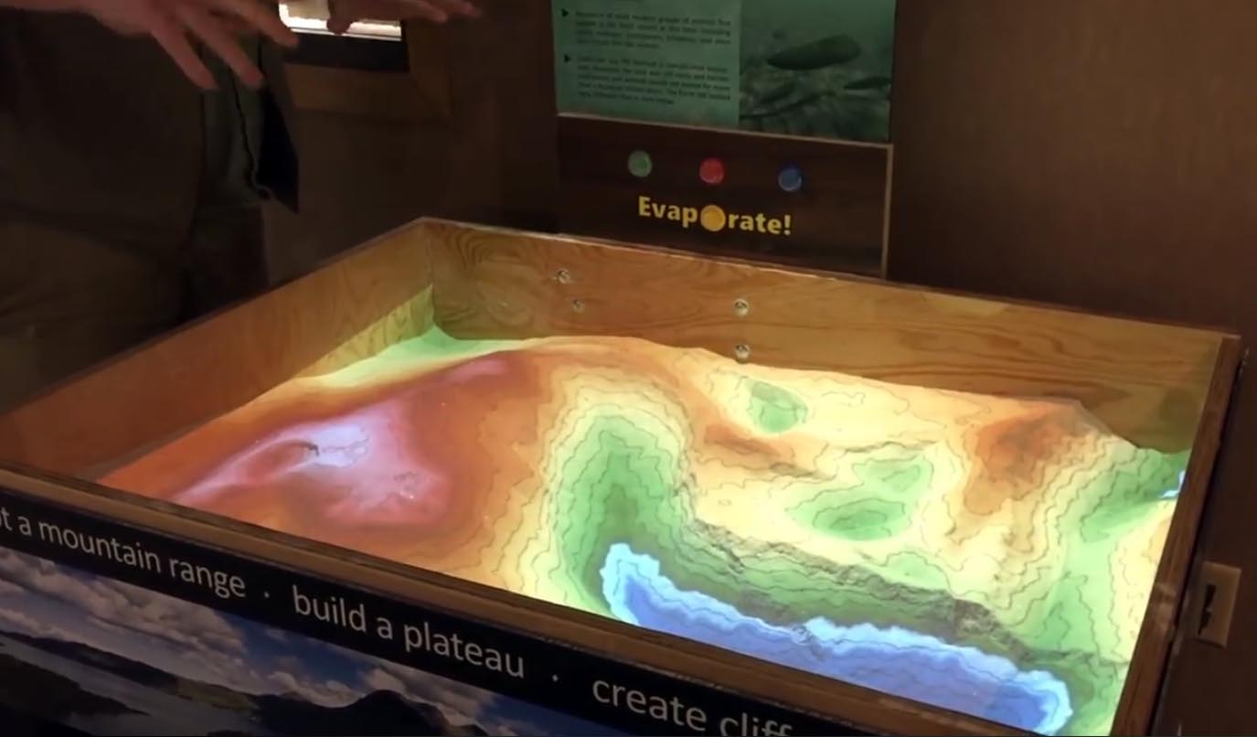 The Augmented Reality Sandbox - an interactive exhibit at Dickinson Museum Center, Dickinson ND.